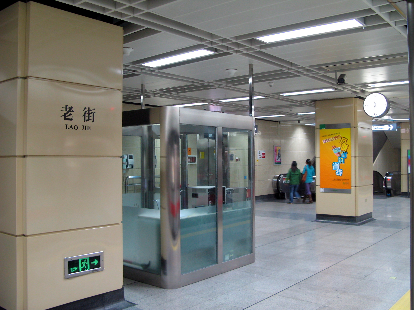 ShenZhen Metro Lao Jie Station Platform